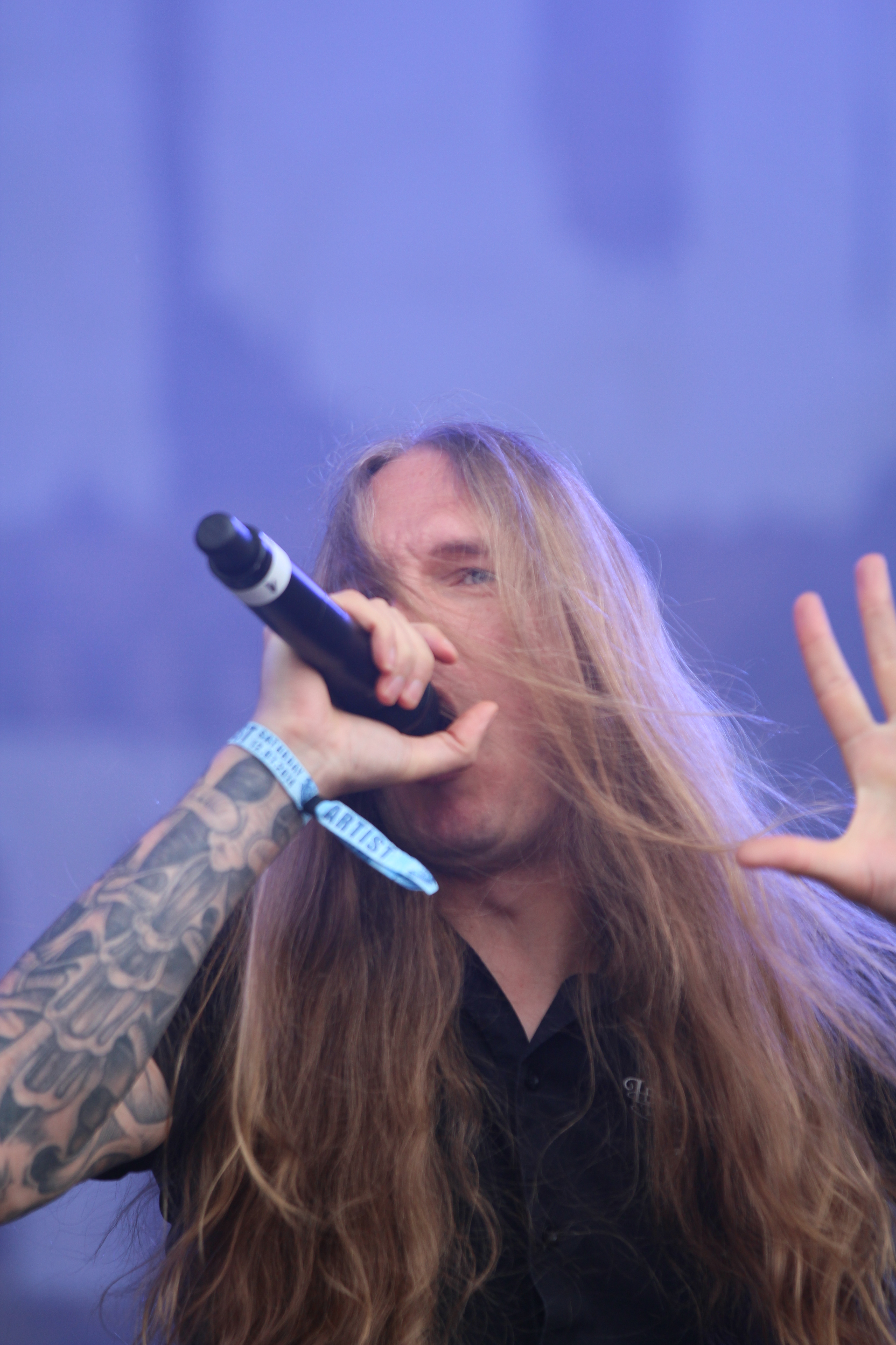 The Dutch death metal/thrash metal band Legion of the Damned at the Rockharz Open Air 2014 in Ballenstedt/Germany